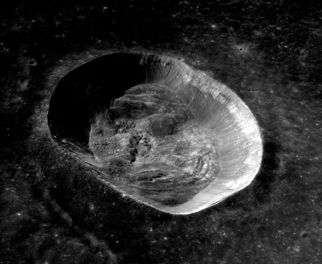 Oblique view facing south of Dawes crater, on the edge of Mare Tranquillitatis and Mare Serenitatis, on the moon.